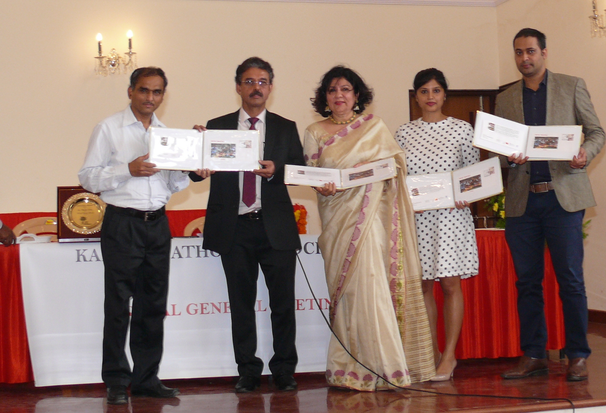 photo clicked by me of stamp released on KCA meeting for wiki page